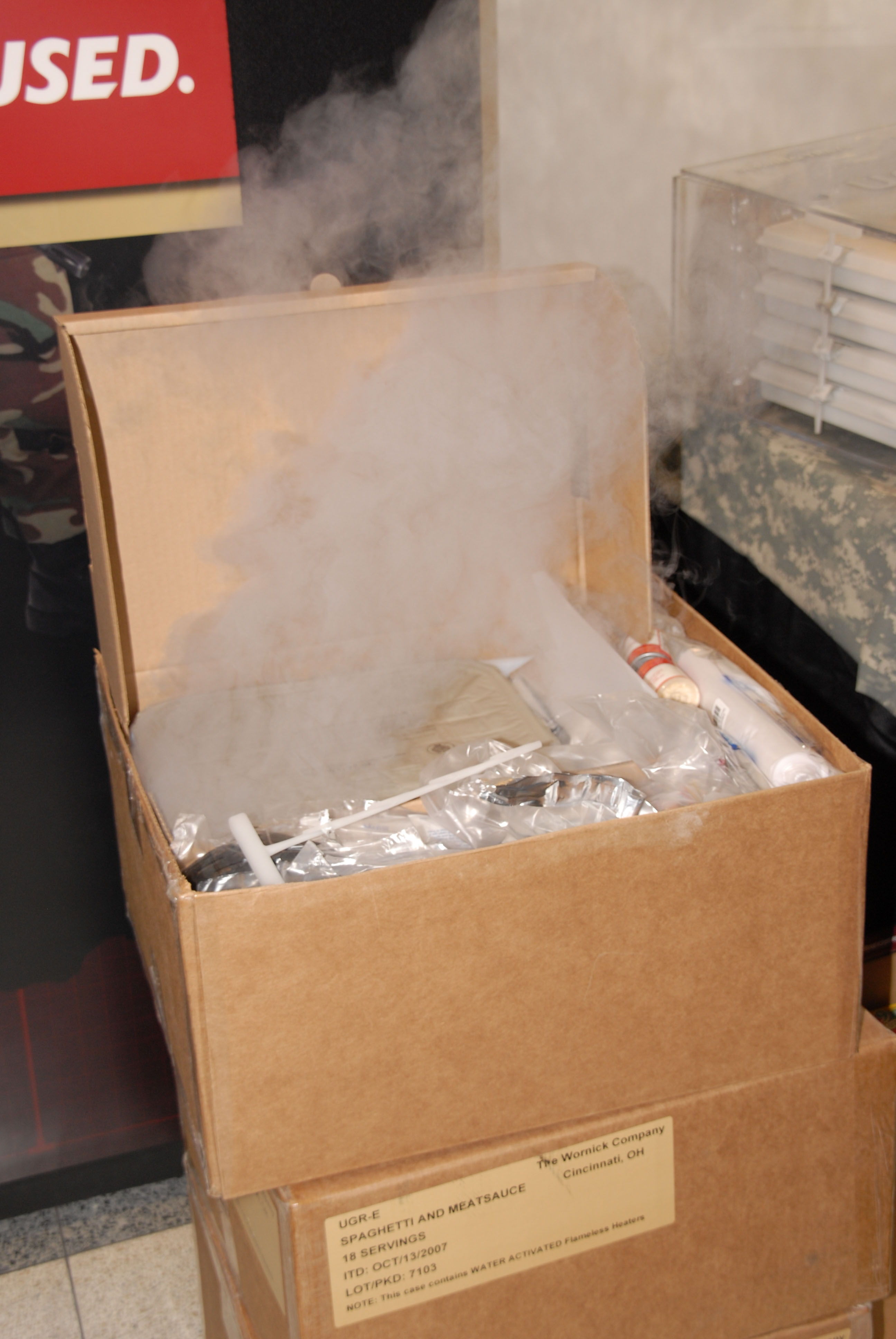 Self-heating field rations for up to 18 soldiers.